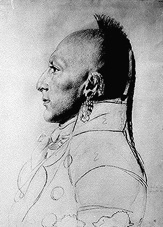 Chief of the Little Osages; bust-length, profile showing hair style.